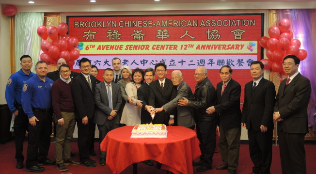 六大道老人中心十二週年聯歡會